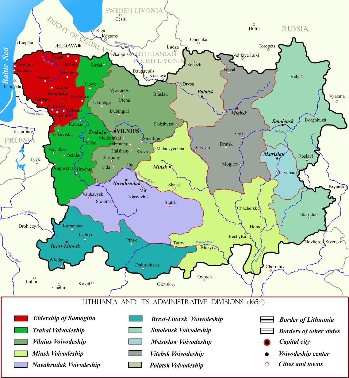 Eldership of Samogitia (red) within Lithuania in the 17th century